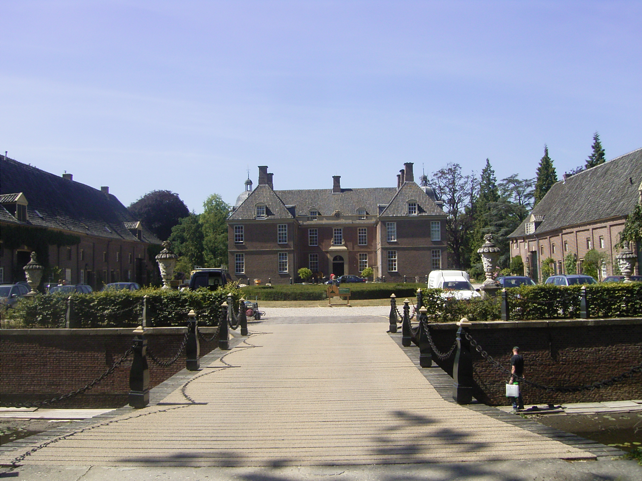 This photo shows castle Slangenburg near Doetinchem